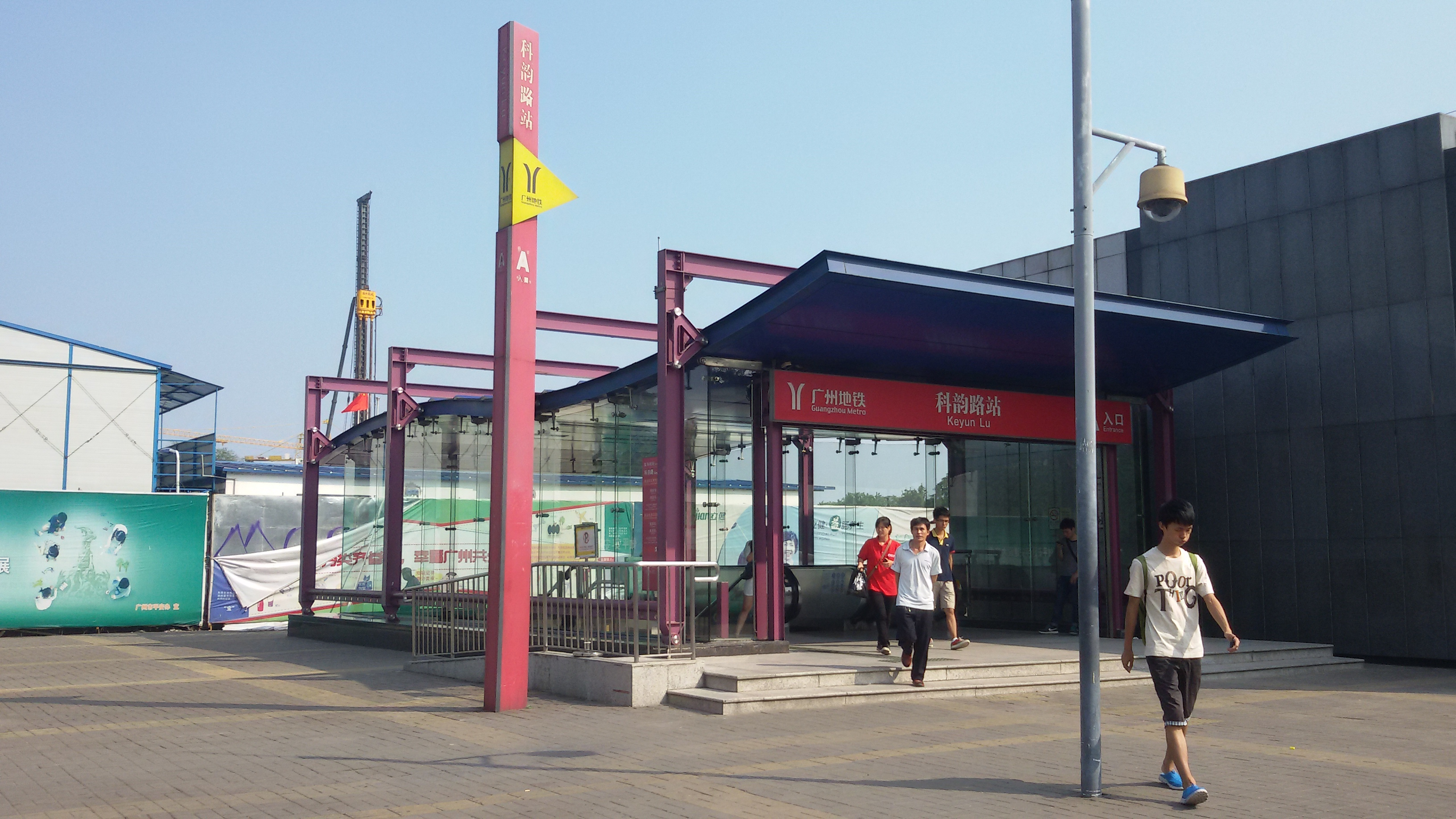 Exit A for Keyunlu Station in Guangzhou Metro.